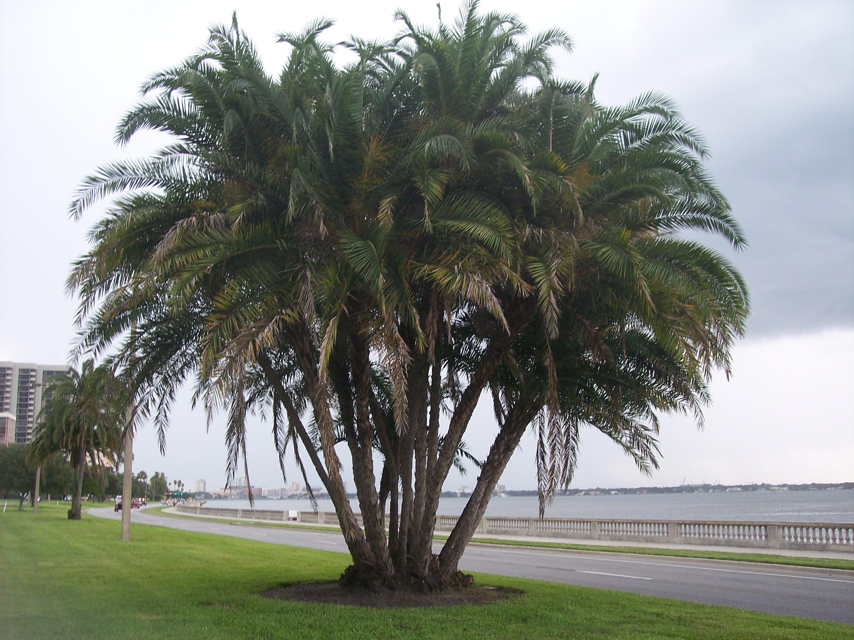 Senegal Date Palm cluster on Bayshore Blvd. Tampa, Florida.